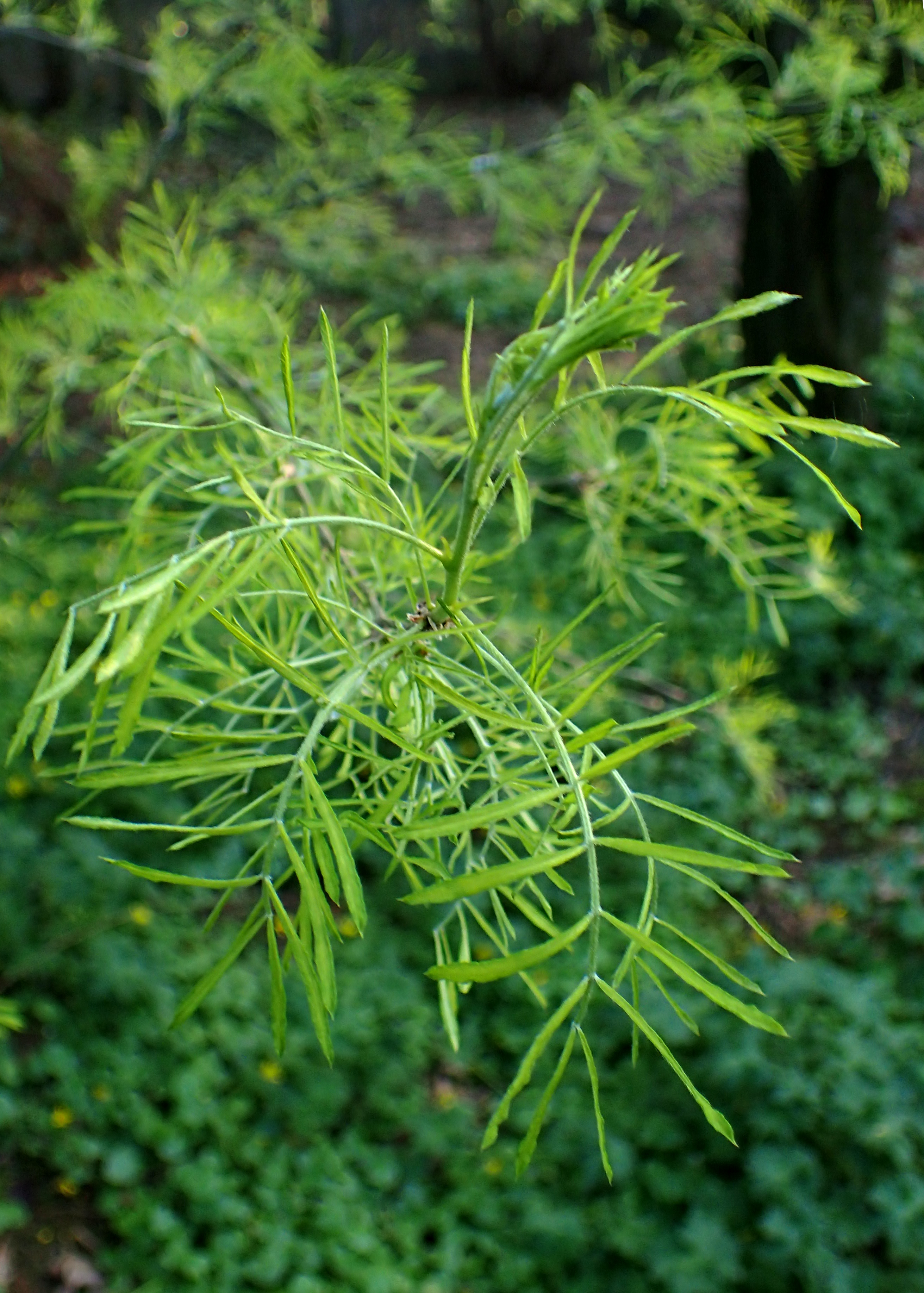 Caragana arborescens 'Lorbergii' in arboretum in Wojsławice